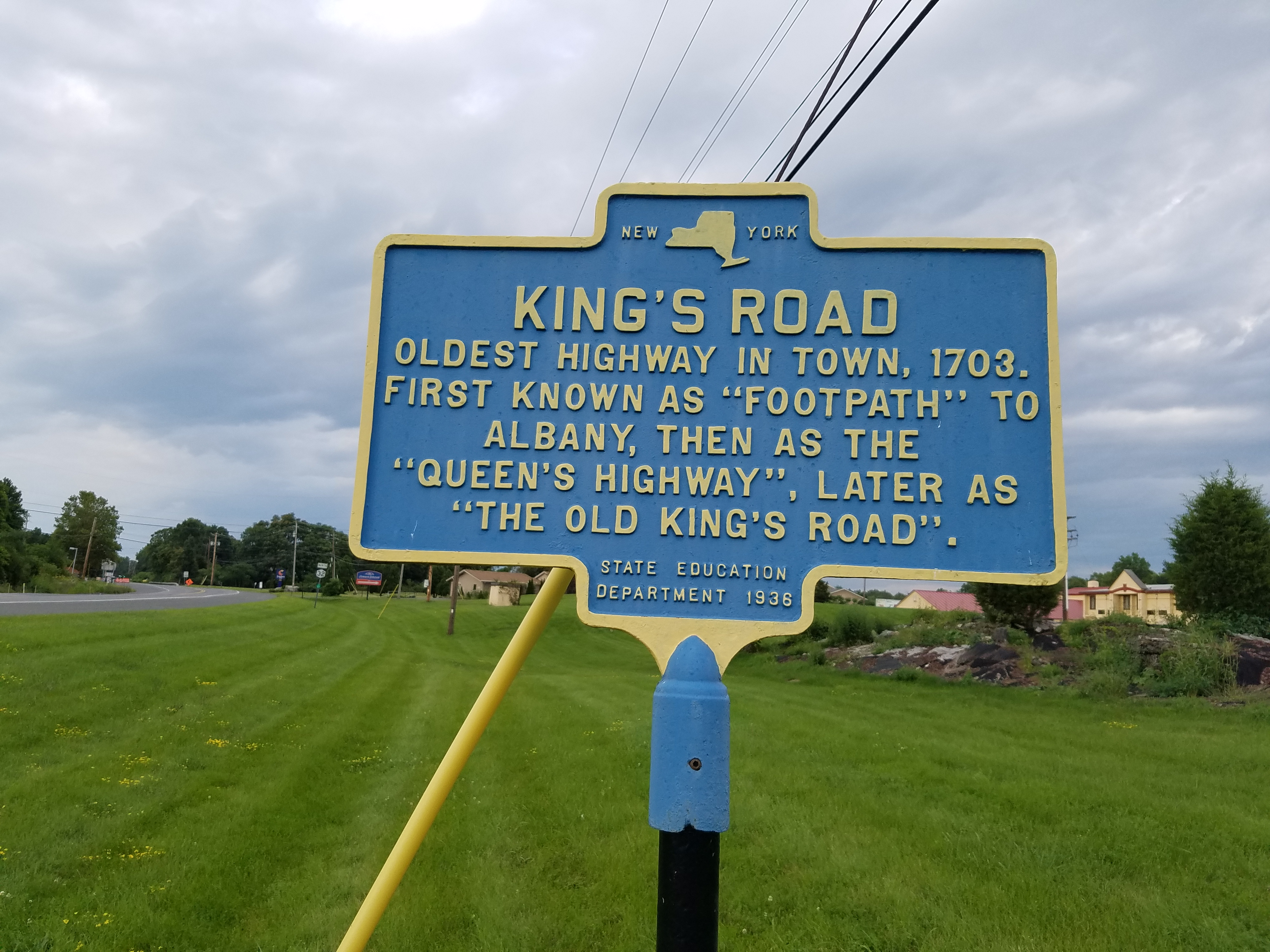 New York State historic marker for the Kings Road